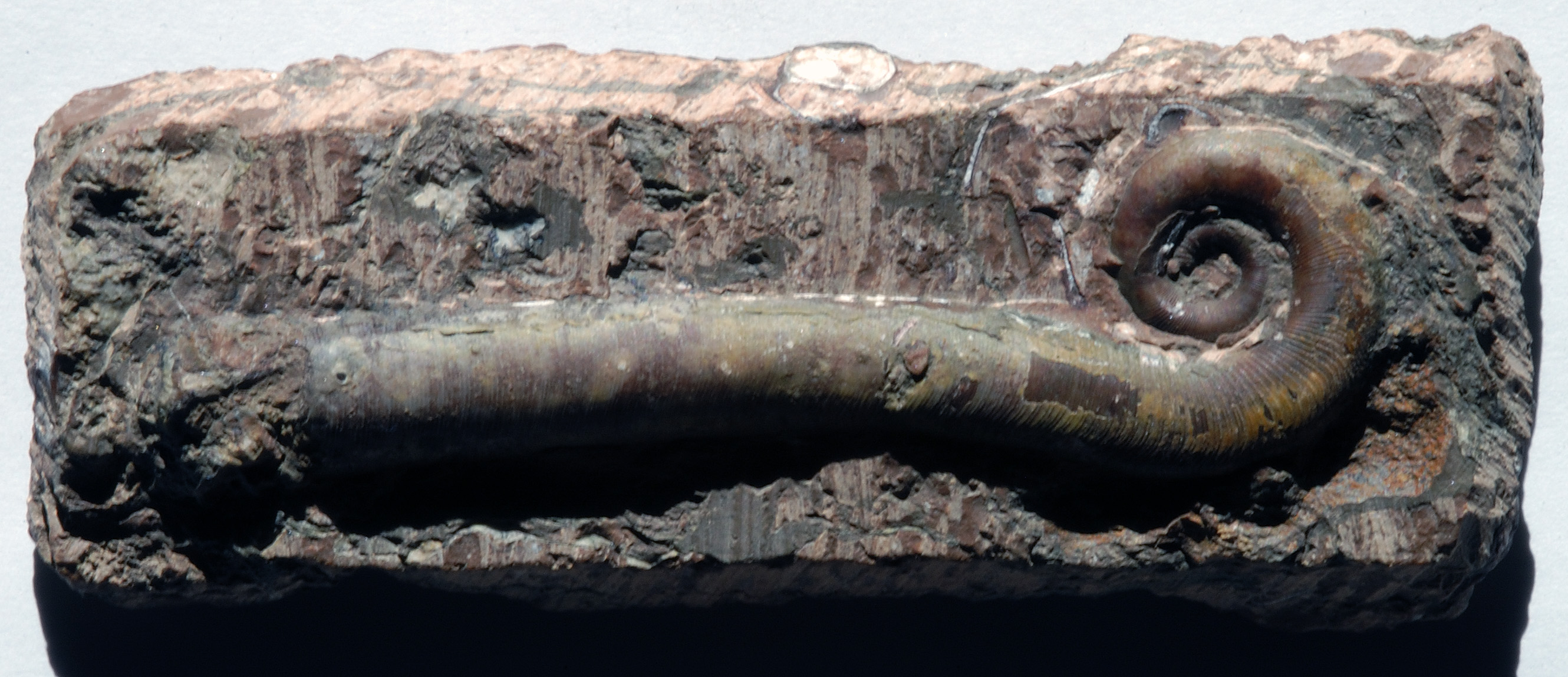 A fossil nautiloid taken by Dlloyd.Trilacinoceras sp. from the Ordovician of Hunan Province, China. Complete, partially uncoiled nautiloid. The specimen measures 9.5 cm (3.7") in length.